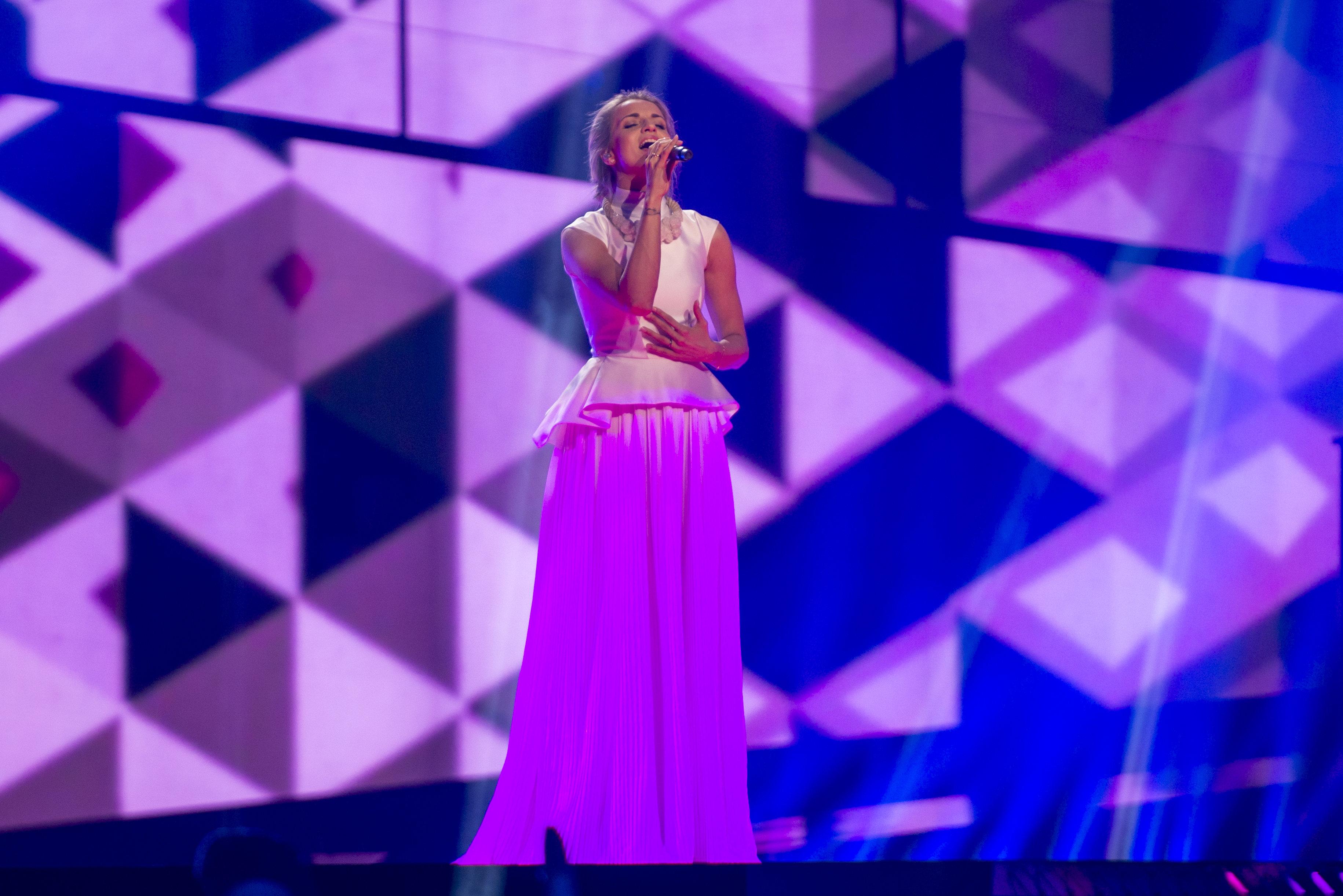 Gabriela Gunčíková representing Czech Republic with the song "I Stand" during a rehearsal before the first semi final of the Eurovision Song Contest 2016 in Stockholm. (Help translate this text)